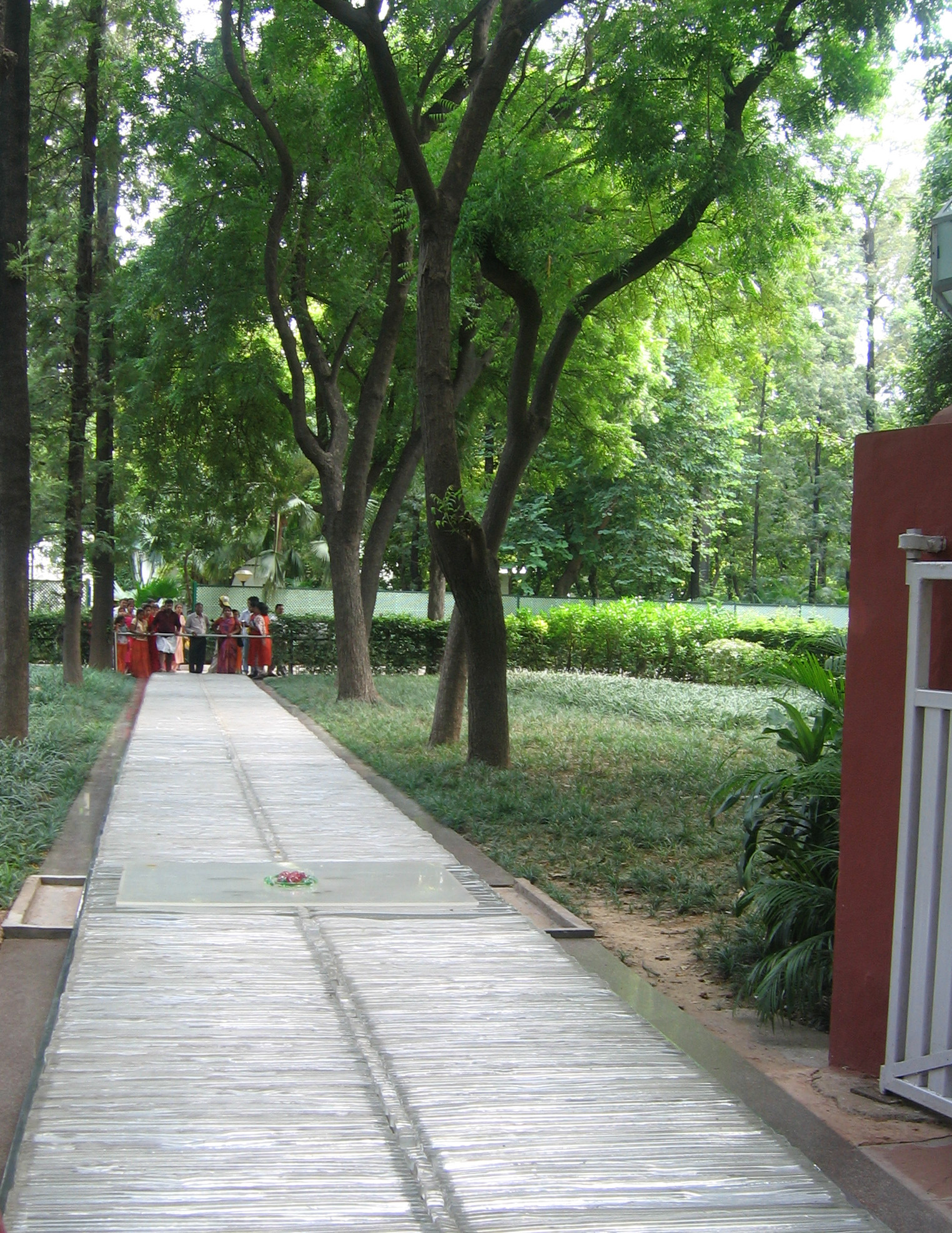 Indira Gandhi - The location where Indira Gandhi was shot